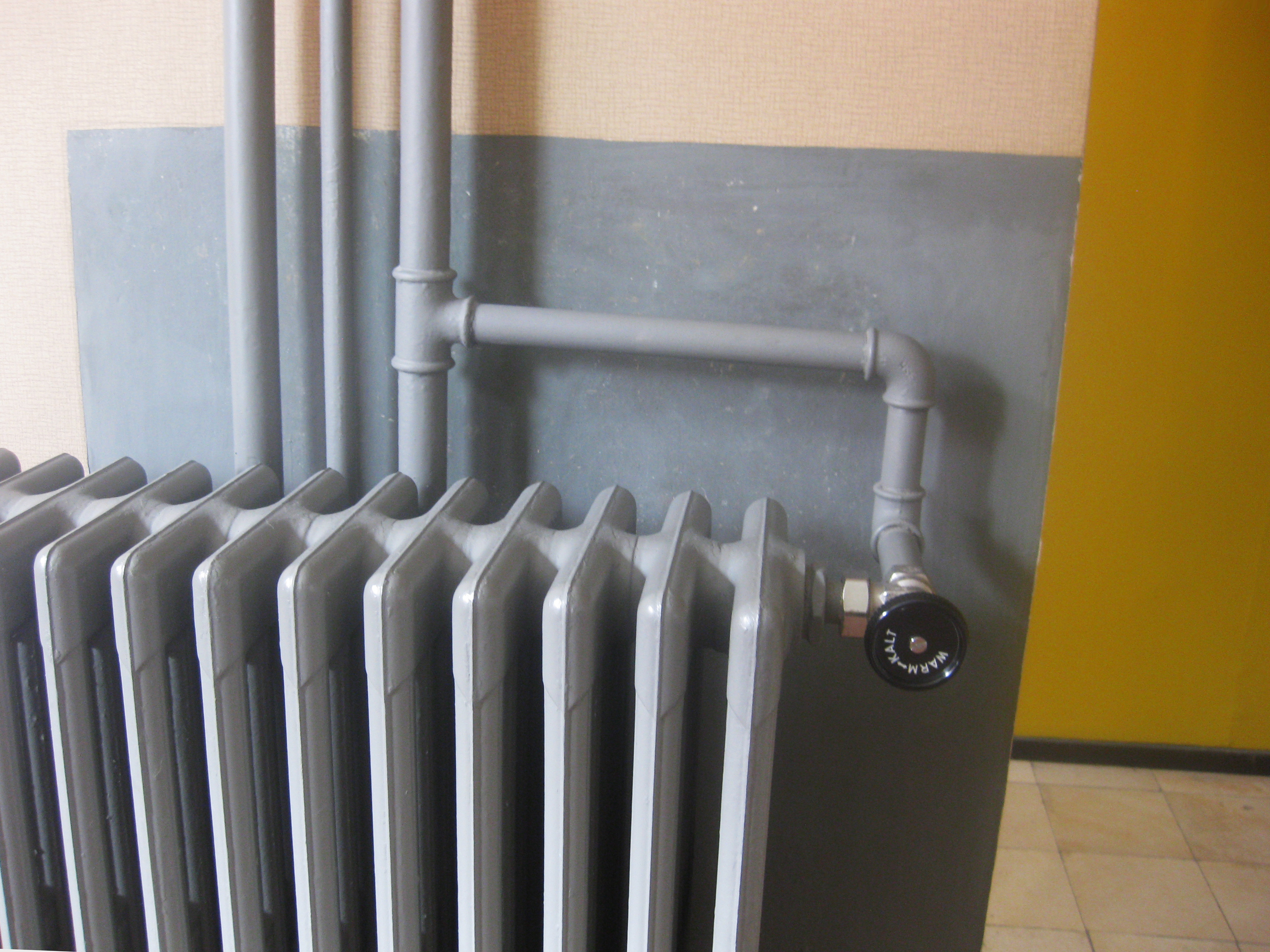 Colour scheme and radiator of the New Frankfurt project in the Ernst-May-House